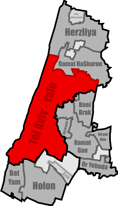 Location of Tel Aviv, Israel in the Tel Aviv District. Legend: Red: City for which the location map was made Dark grey: City Medium grey: Local council (town) Light grey: Regional council Red line: Municipal boundary of the city for which the location map was made Grey line: Municipal boundary Black line: Officially defined geographic region boundary